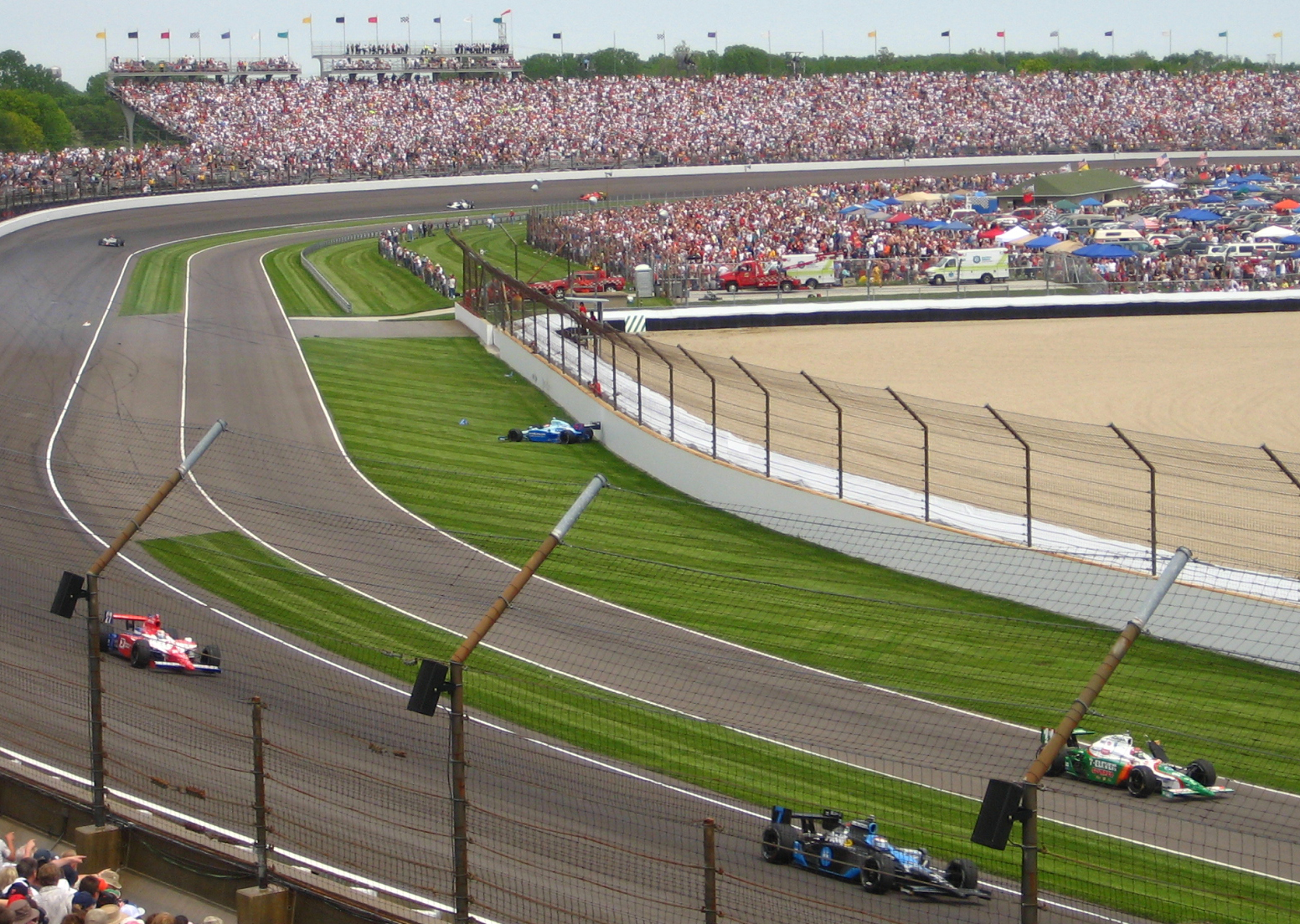 Tony Kanaan and Sarah Fisher's damaged cars after colliding during the 2008 Indianapolis 500